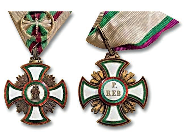 Catholic orden "Saints Cyril and Methodius" (issued between 1906 and 1916)